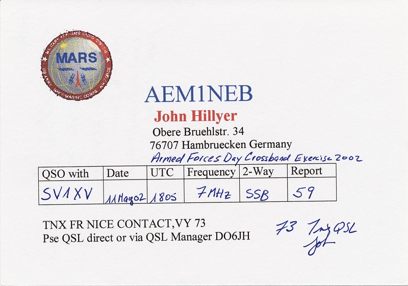 QSL card sent by MARS station AEM1NEB (Hambruecken, Germany) for a cross-band radio contact with station SV1XV on Armed Forces Day 2002.